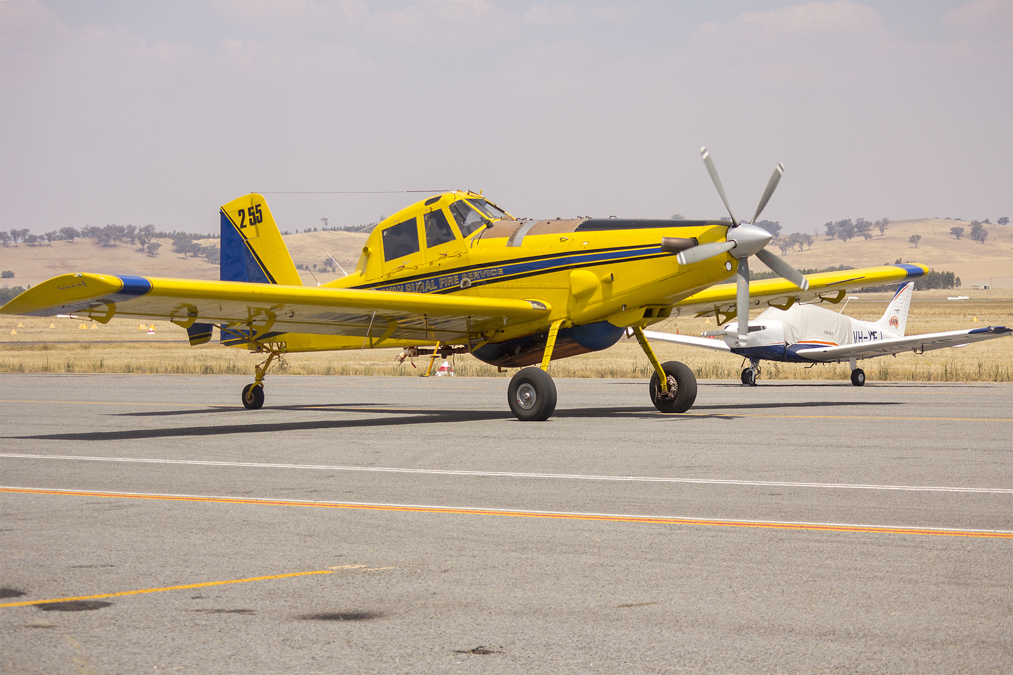 Kennedy Aviation (VH-XAU) Air Tractor AT-802, on contract to the New South Wales Rural Fire Service as Bomber 255, waiting to refill with fire retardant at Wagga Wagga Airport.